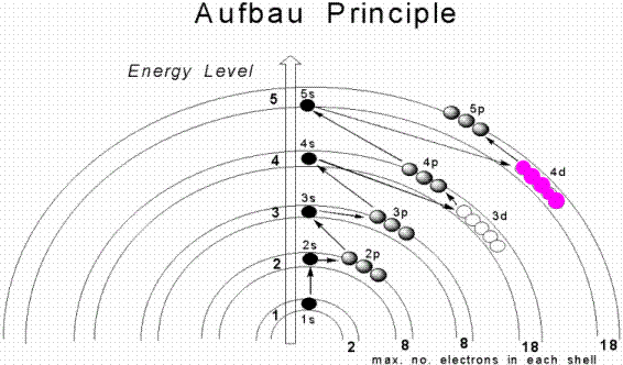 Adding electrons showing the aufbau principle.